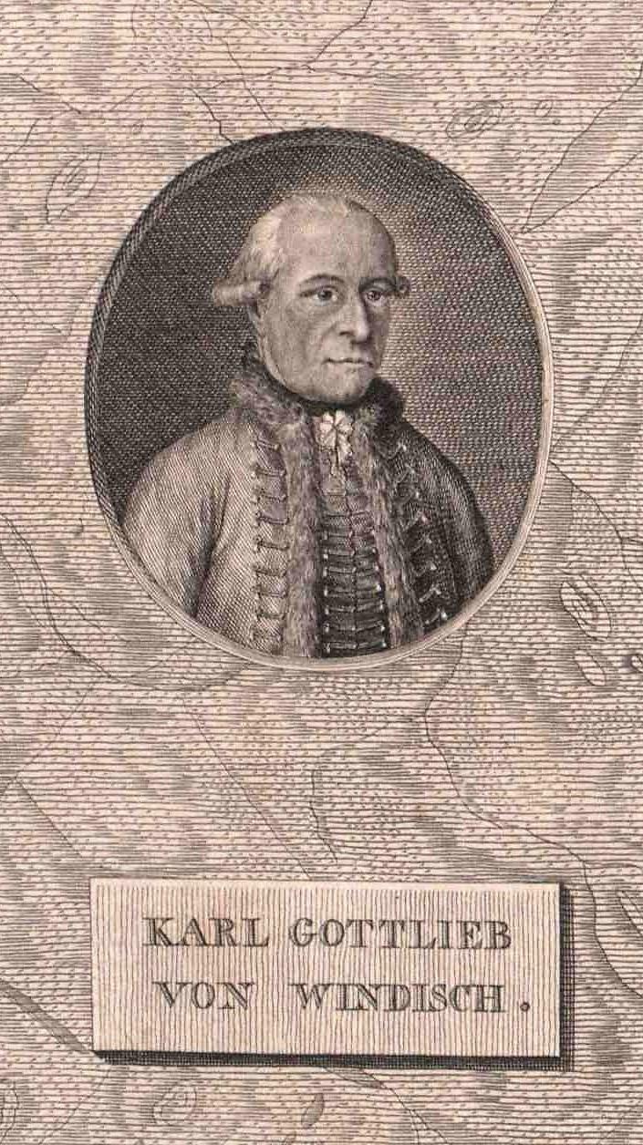 portrait Karl Gottlieb Windisch